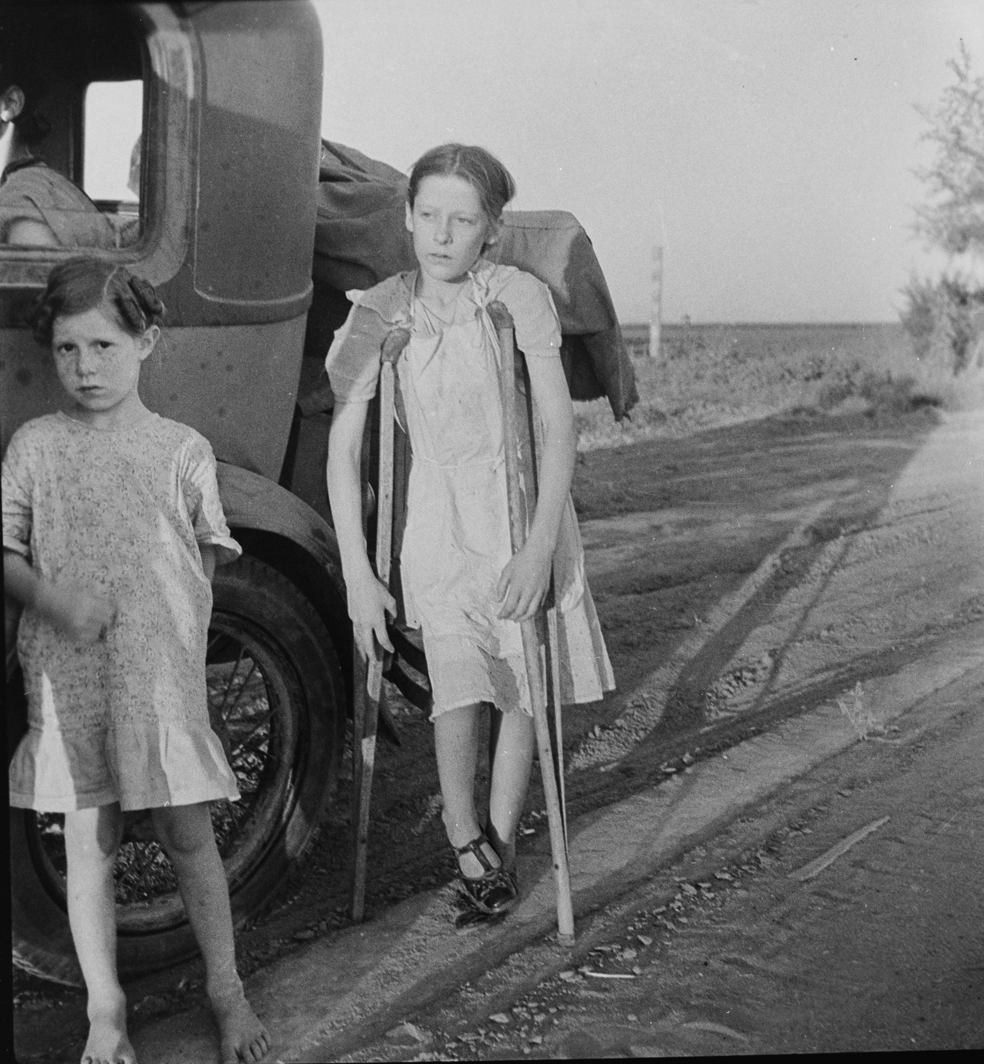 Children of Oklahoma drought refugees on highway near Bakersfield, California. Family of six; no shelter, no food, no money and almost no gasoline. The child has bone tuberculosis.